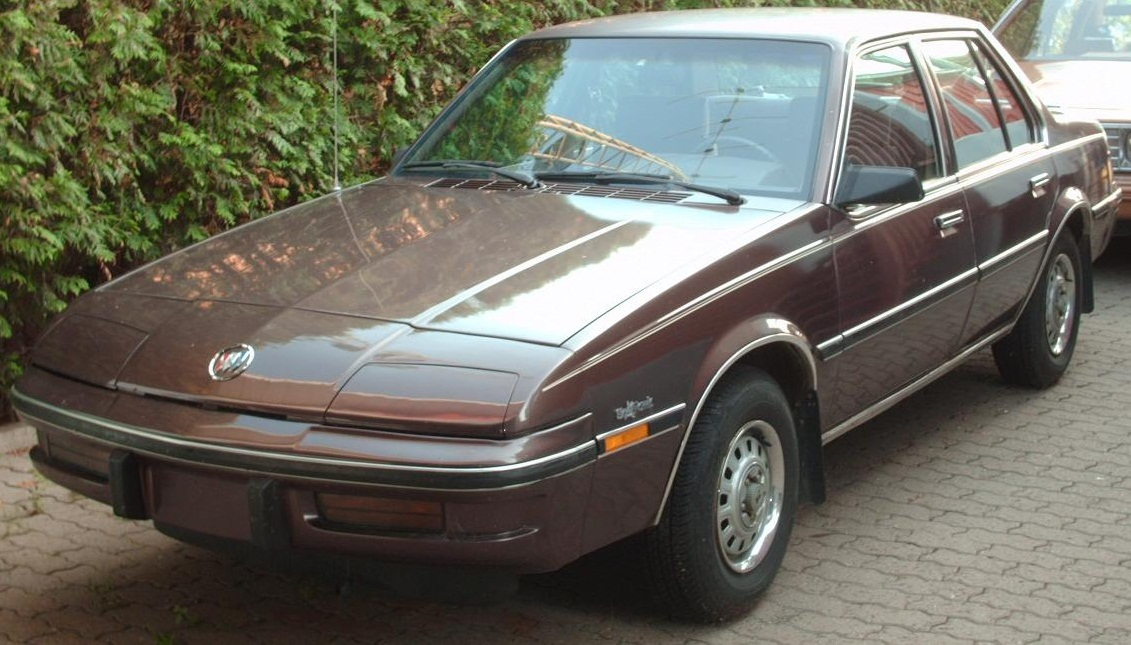 1987 Buick Skyhawk photographed in Pointe Des Cascades, Quebec, Canada.